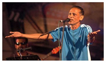 আজম খান